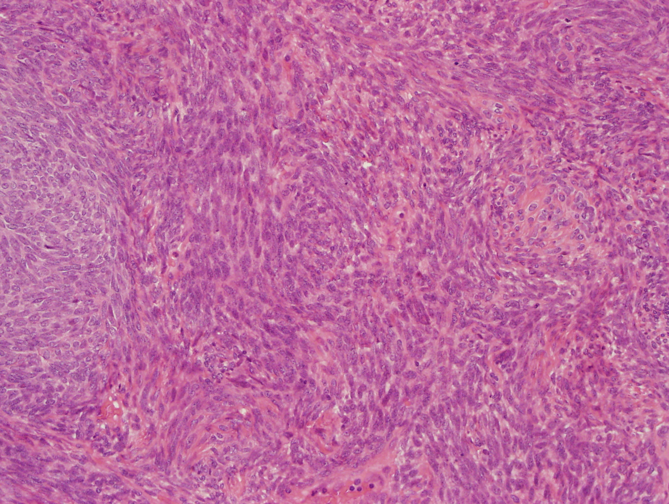 Synovial Sarcoma, Biphasic